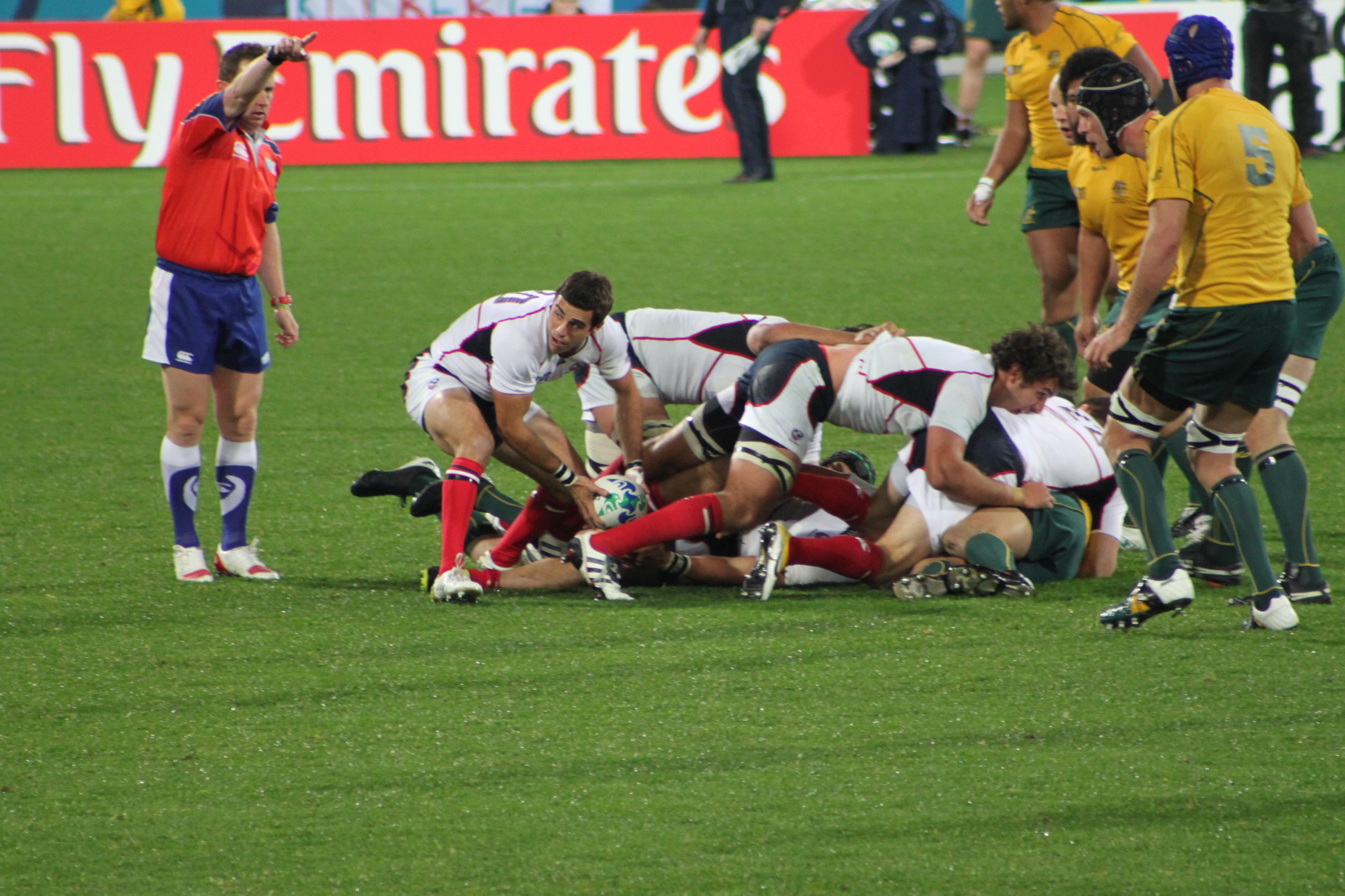 Match between Australia and USA during 2011 Rugby World Cup in New Zealand.